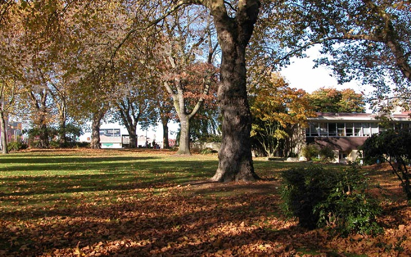 Denny Park